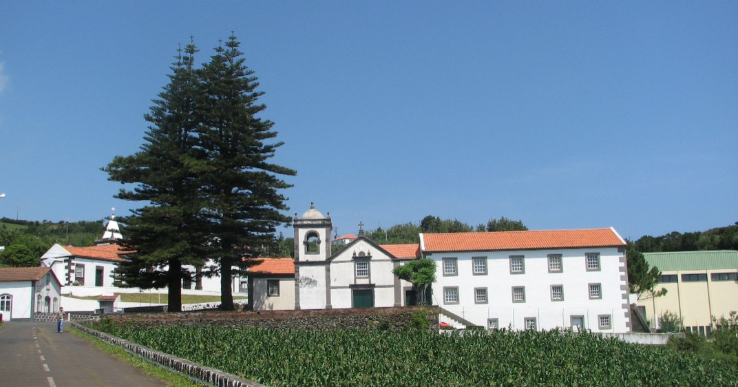 The franciscan convent of São Diogo, Topo, Azores.